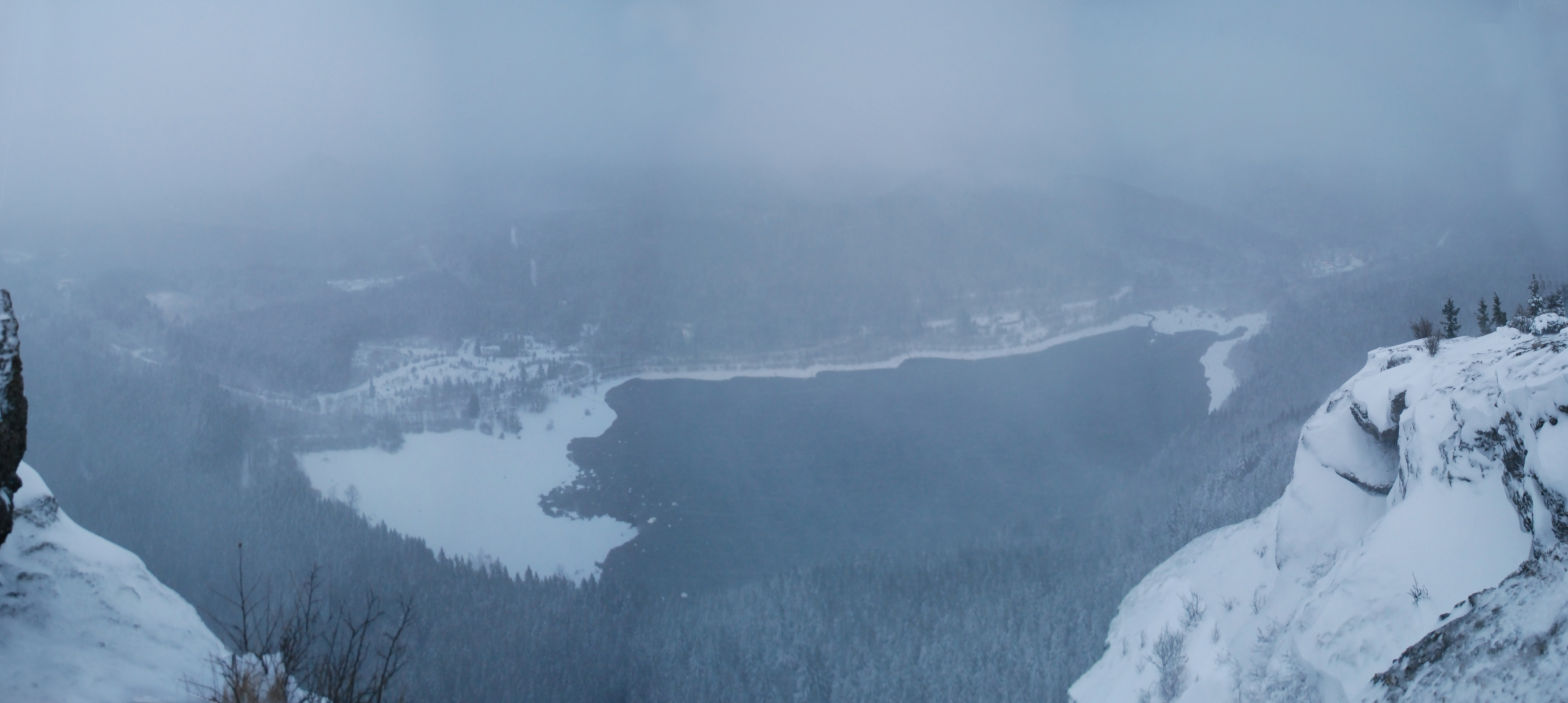 Panorama taken in January from Rattlesnake Ledge, looking East towards Rattlesnake Lake